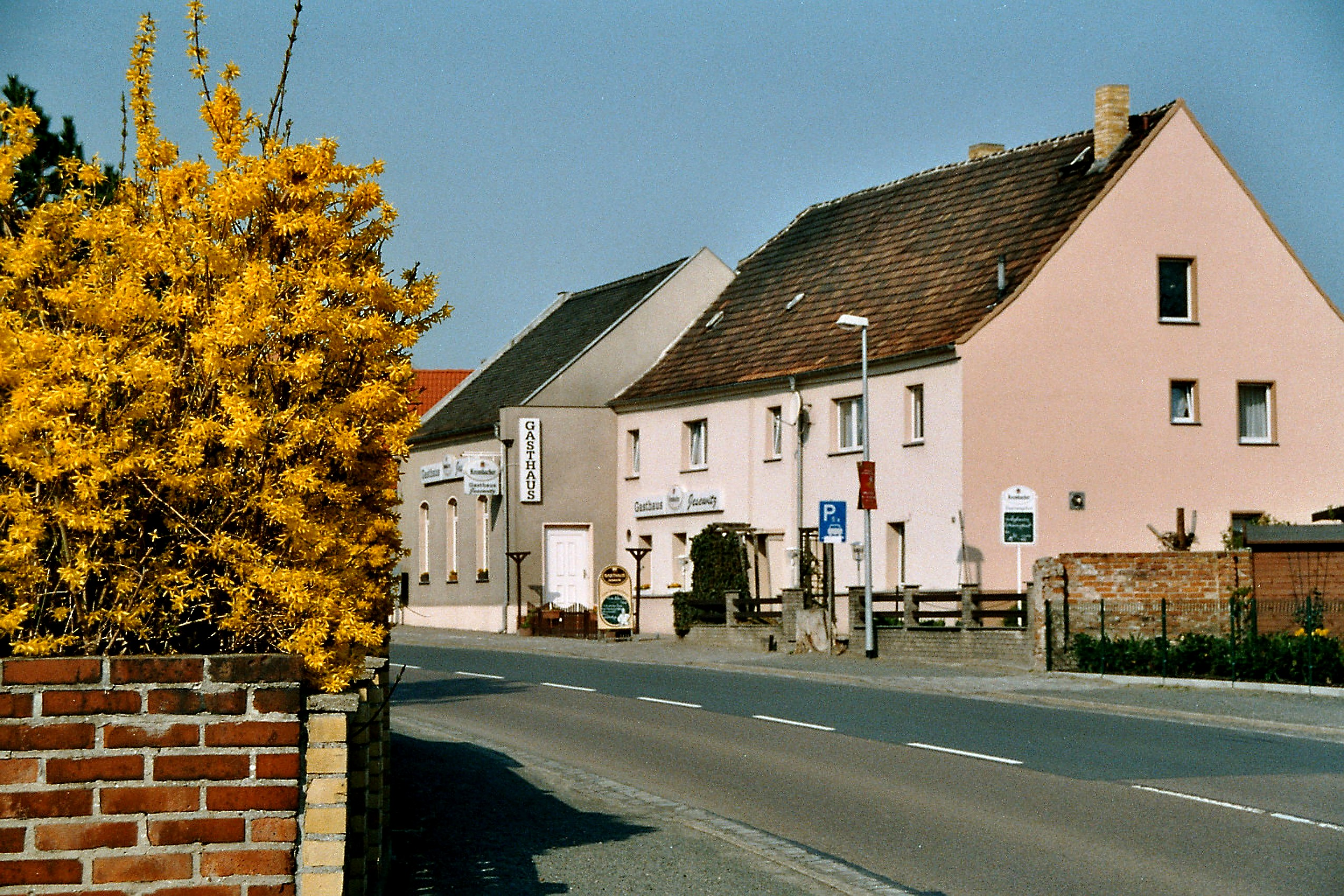 Jesewitz, the inn